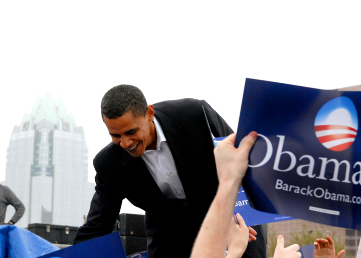 Sen. Barack Obama in Austin, TX